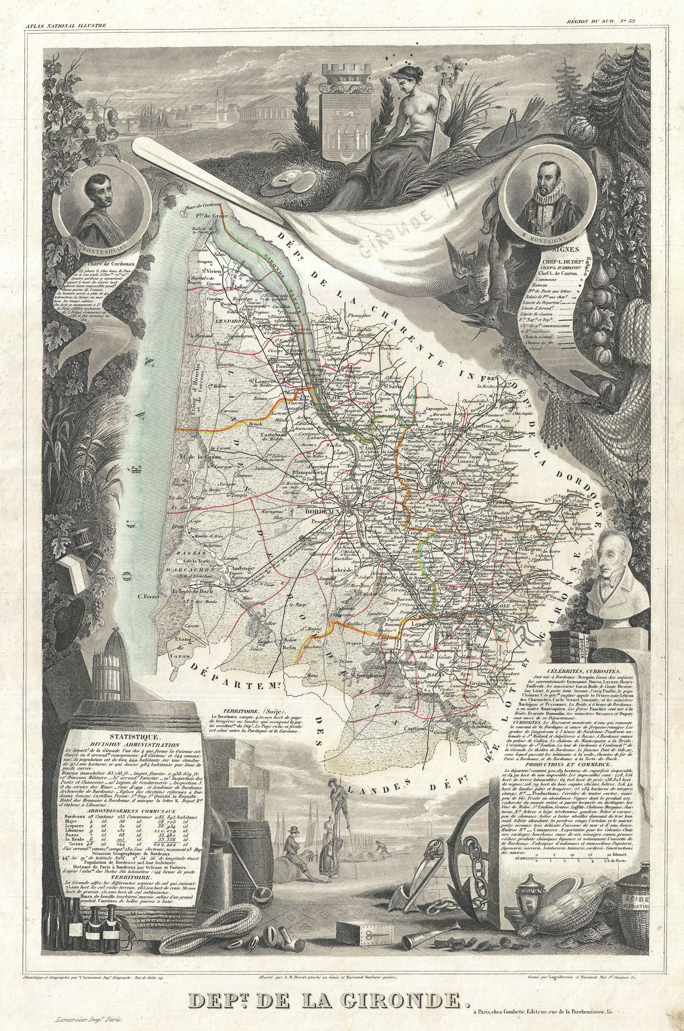 This is a fascinating 1852 map of the French department of Gironde. This coastal department is the seat of the Bordeaux wine region and produces many of the world's finest reds. Shows numerous vineyards and chateaux. The whole is surrounded by elaborate decorative engravings designed to illustrate both the natural beauty and trade richness of the land. There is a short textual history of the regions depicted on both the left and right sides of the map. Published by V. Levasseur in the 1852 edition of his Atlas National de la France Illustree.